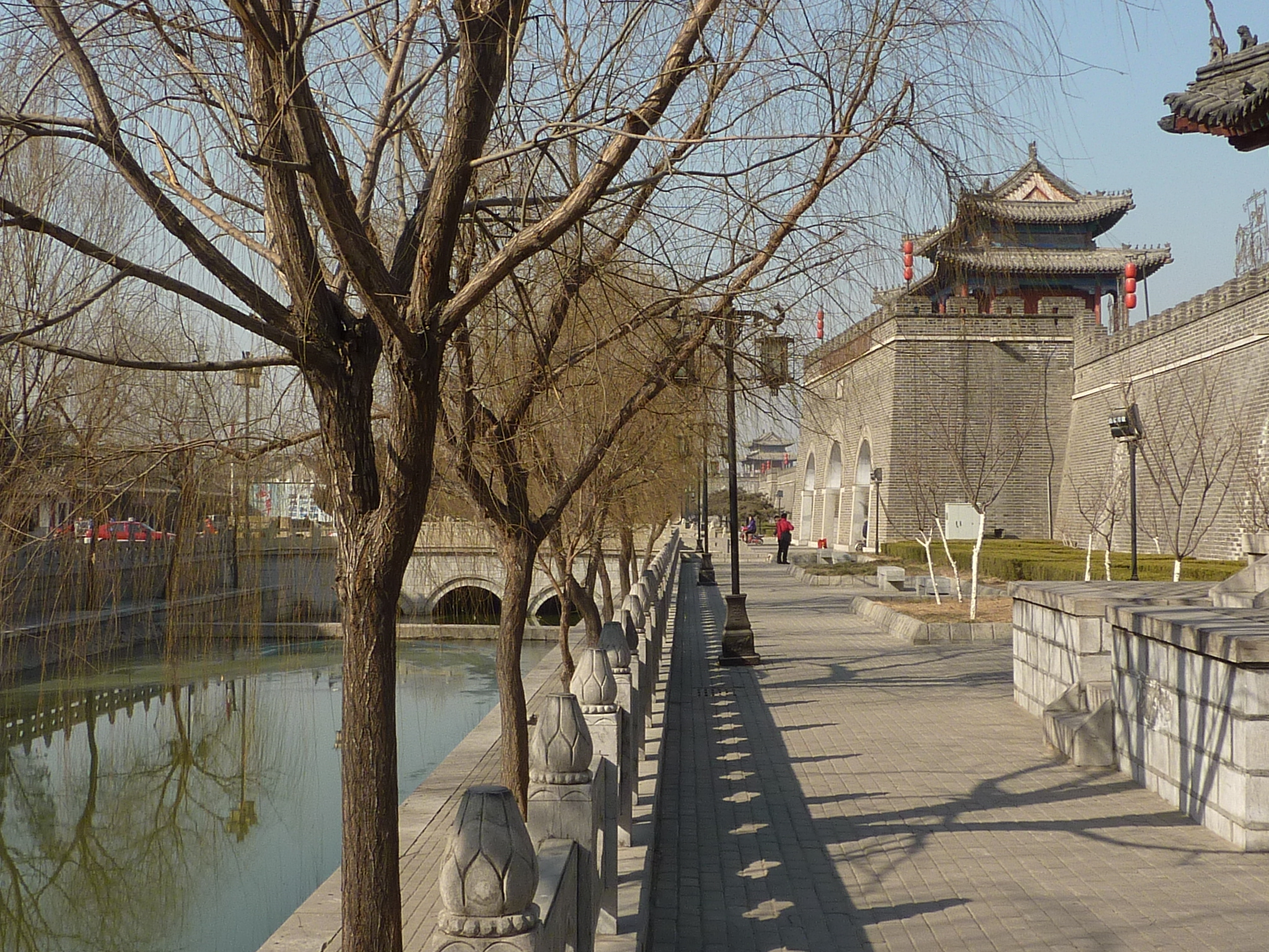 The moat (or river) running along the southern side of Qufu's city walls. Looking west, from the Gulou St. gate to the main southern gate (at Shendao Rd).